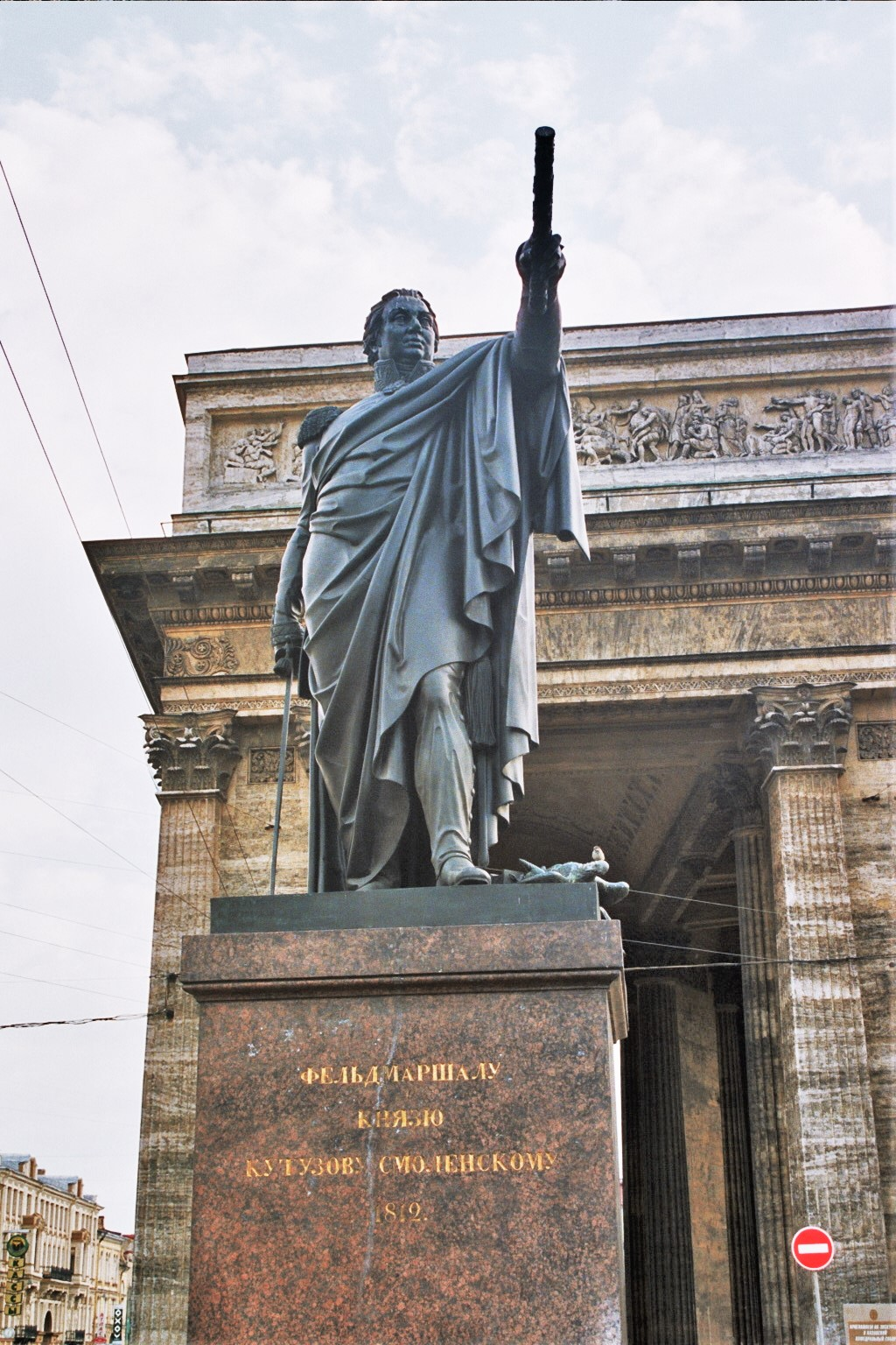 Koetoezov monument on the square in front of the Kazan cathedral in Saint Petersburg.